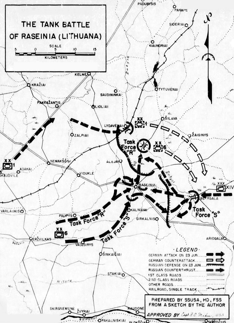 Map of the Battle of Raseiniai, order of battle